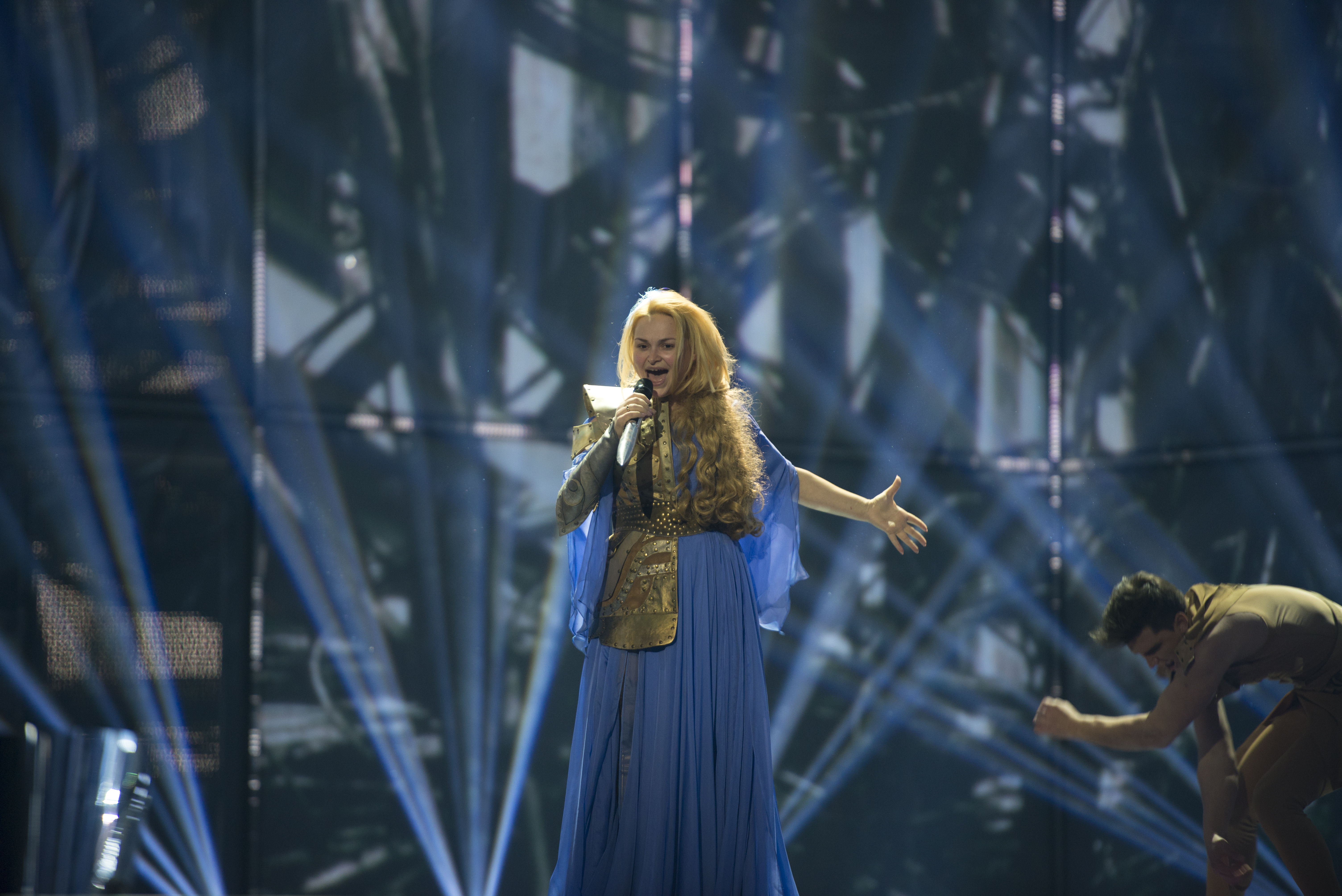 Cristina Scarlat representing Moldova with the song "Wild Soul" during the first dress rehearsal of the first semi final of the Eurovision Song Contest 2014 Copenhagen. (Help translate this text)